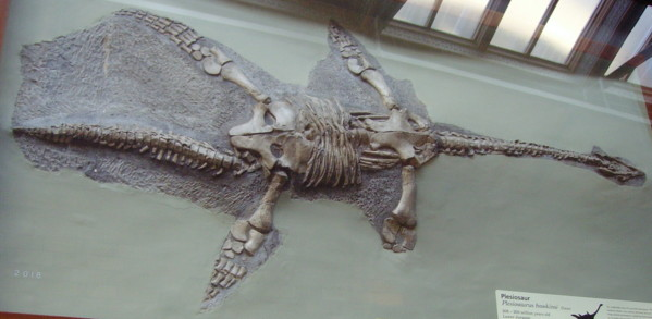 Thalassiodracon hawkinsi